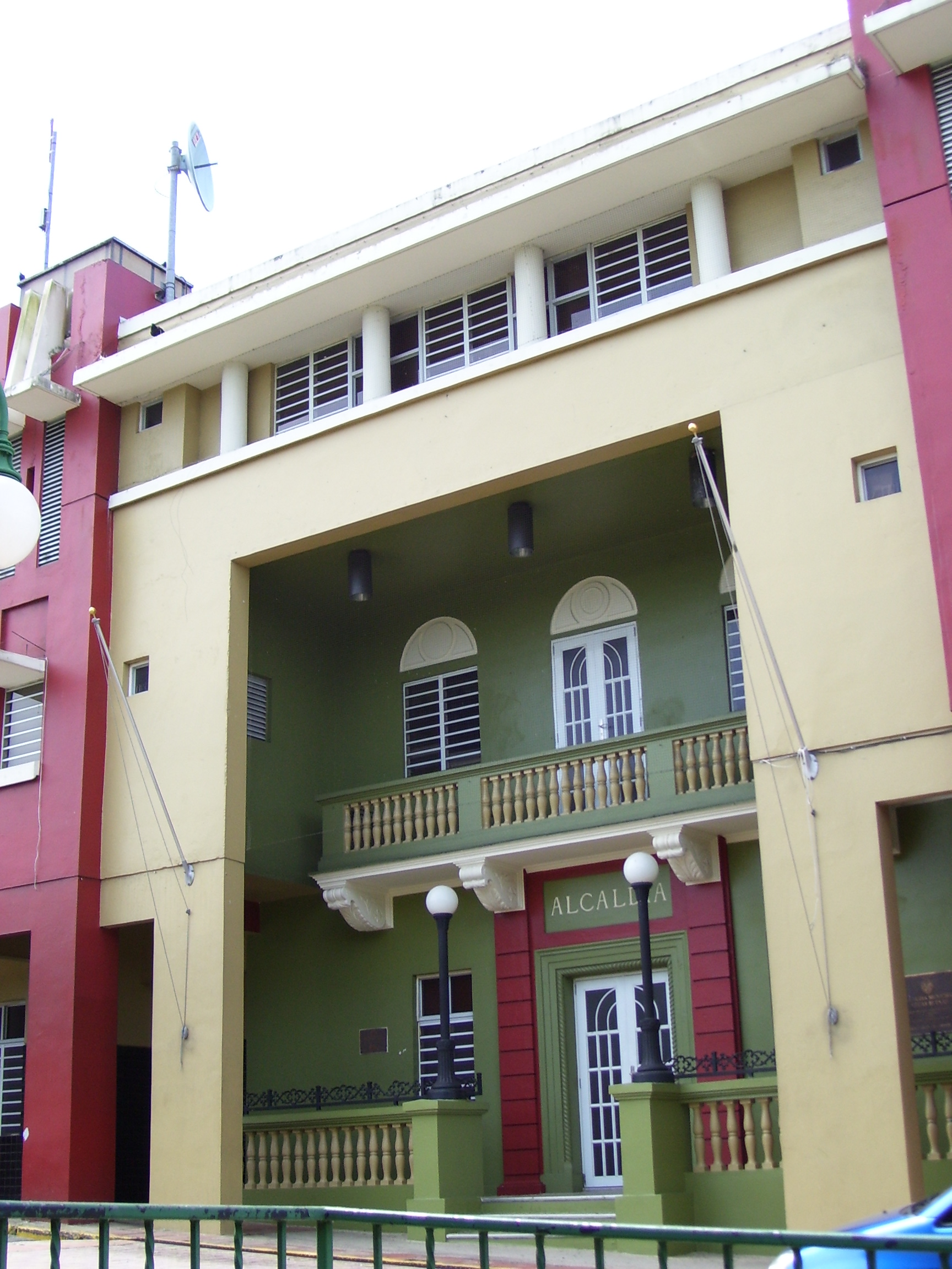 Aguas Buenas city hall